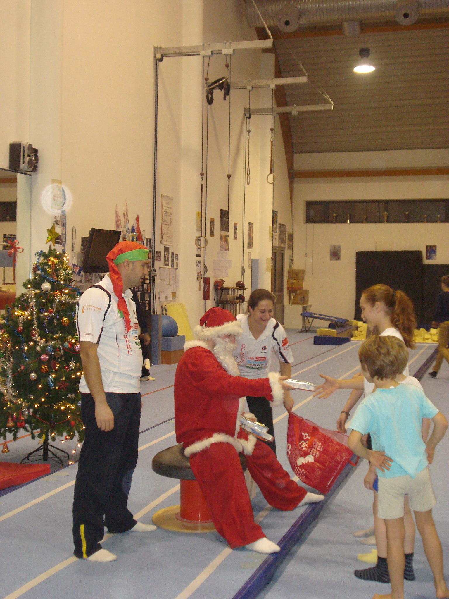 Santa Claus hands out presents to young gymnasts in Aton - Croatian National Gymnastics Training Centre in Nedelišće, Medjimurie County, Croatia